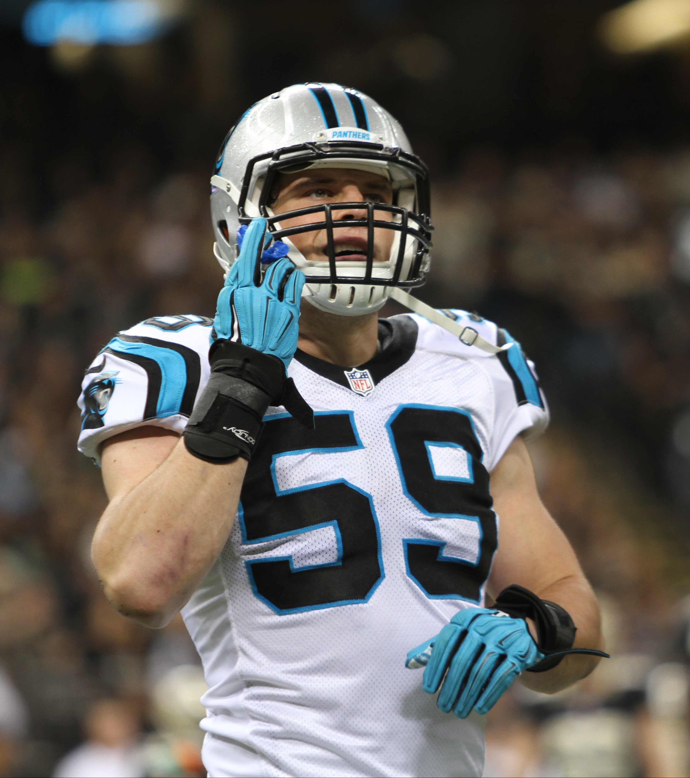 New Orleans Saints vs Carolina Panthers, December 6, 2015, Tammy Anthony Baker, Photographer